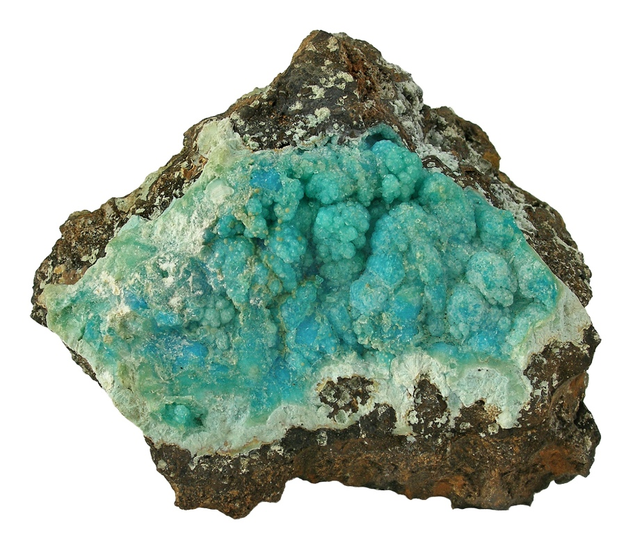 Allophane Locality: Graphic Mine (Graphic shaft; Waldo-Graphic mine; Waldo Tunnel), Magdalena District, Socorro Co., New Mexico, USA Size: 8.6 x 6.6 x 4.6 cm. A beautiful, intense blue specimen of the rare aluminum-bearing silicate allophane. It has a waxy and vitreous lustre to it that is different than the similar-appearing chrysocolla (copper-containing). I had not seen this mineral from the Kelly Mine, but I am very much inclined to trust Al's judgment and labeling. The man was field-collecting since before my parents were born, and he has been all over the place building his large reference collection. Collected from the Graphic Tunnel. Ex. Al Ordway Collection.